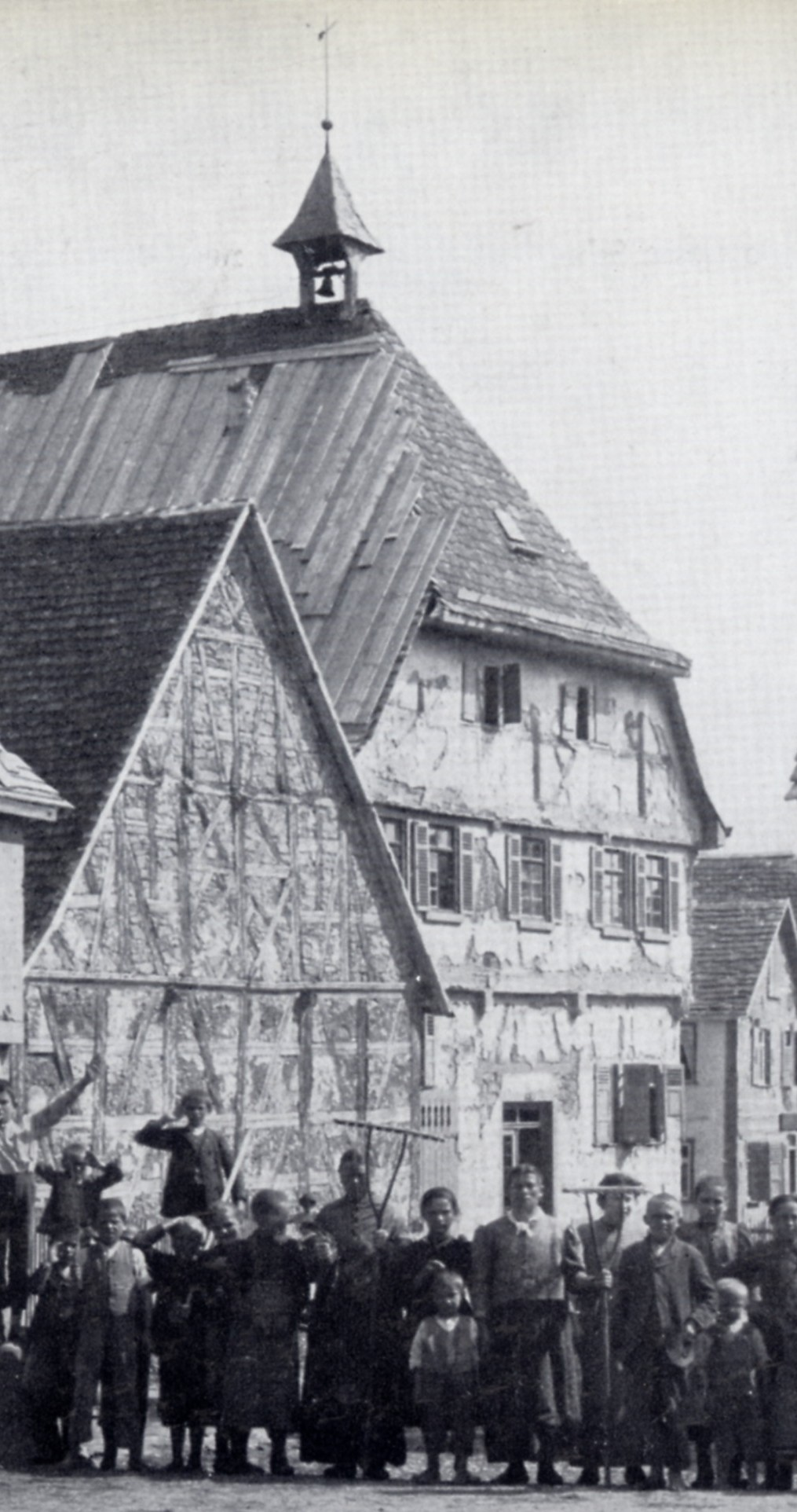 The old town hall in Heilbronn-Neckargartrach